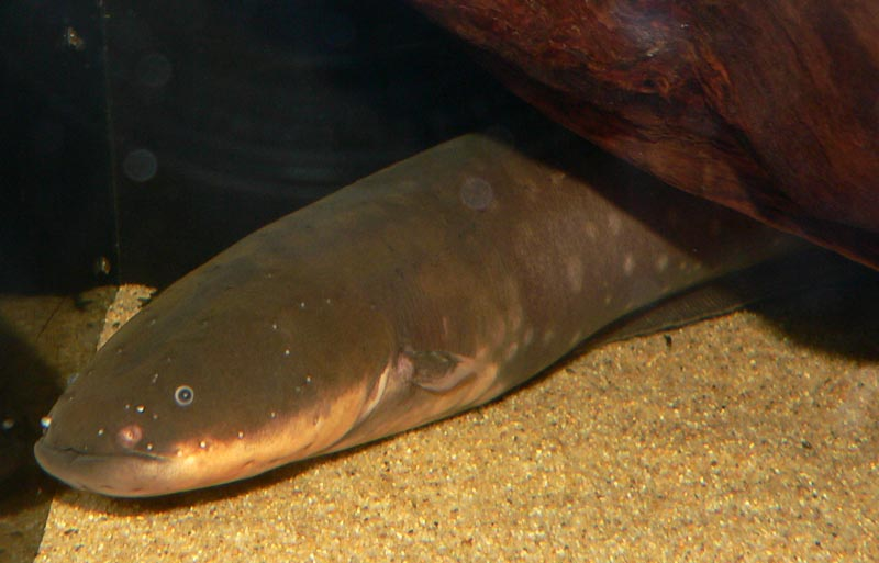 Photo of Electrophorus electricus (electric eel) at the Steinhart Aquarium in San Francisco